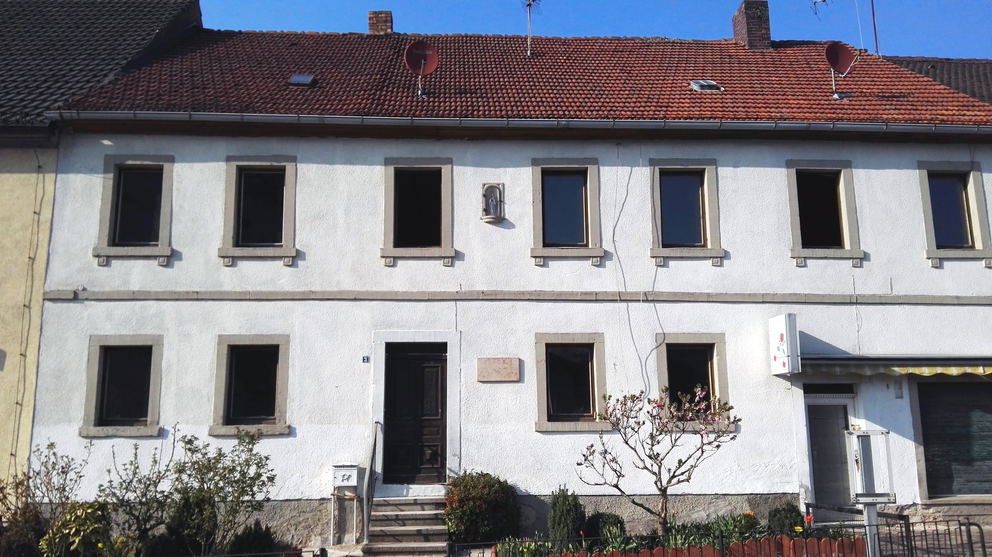 Birthplace of composer Max Jobst in Ebrach